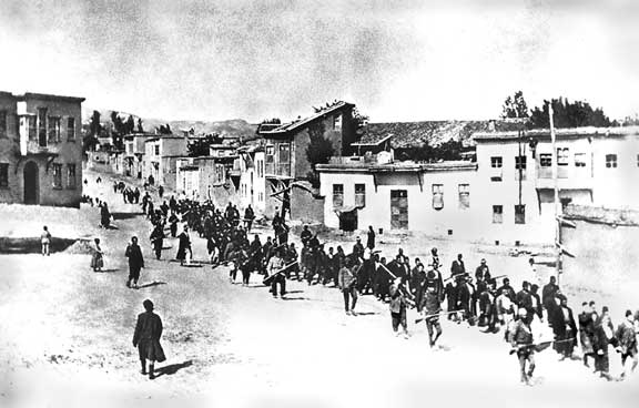 Armenians are marched to a nearby prison in Mezireh by Ottoman soldiers. Harput (Kharpert), Elazığ Province, Ottoman Empire, April, 1915